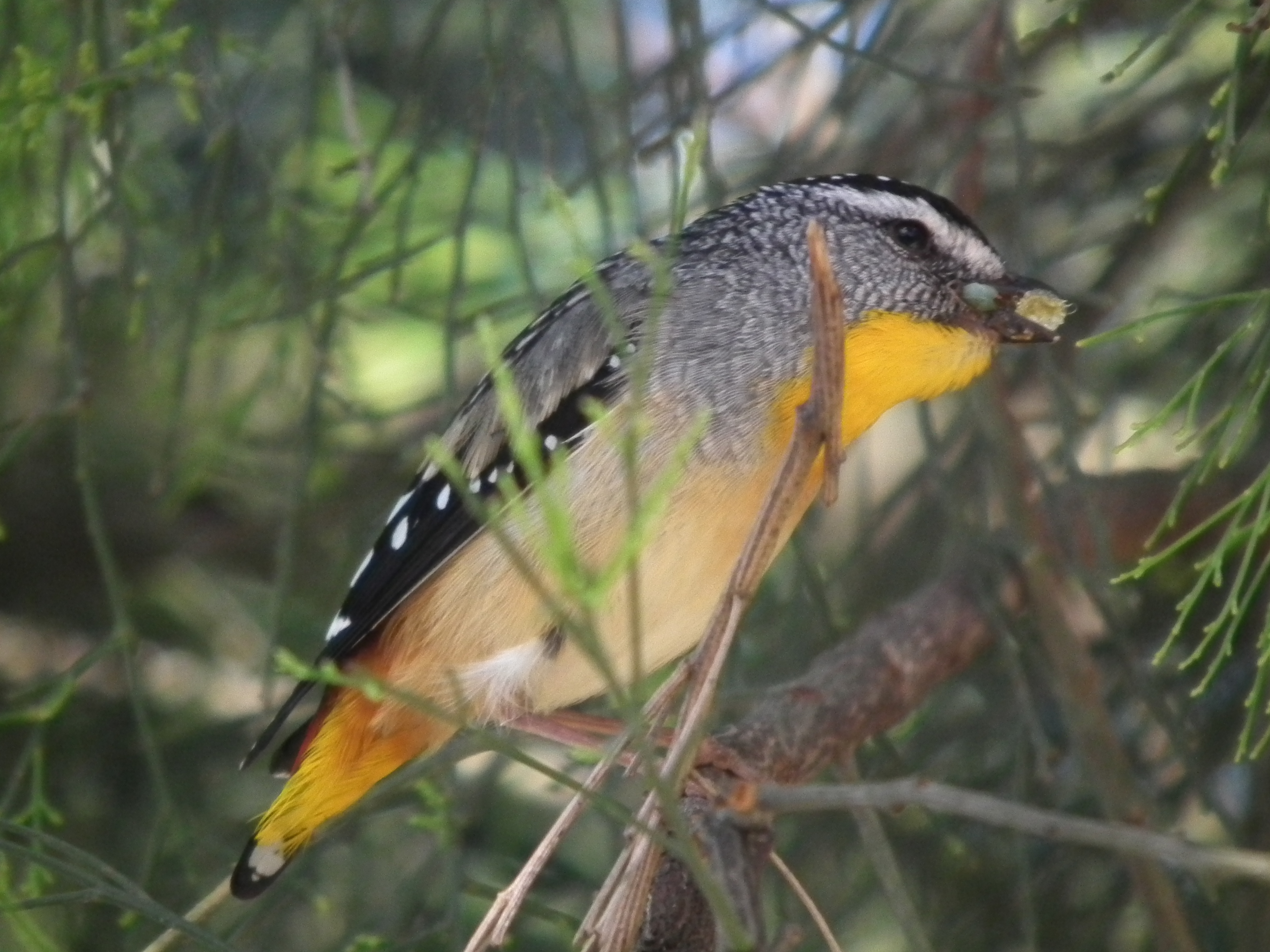 A male Spotted Pardalote at Royal Botanic Gardens, Cranbourne, Melbourne, Australia.